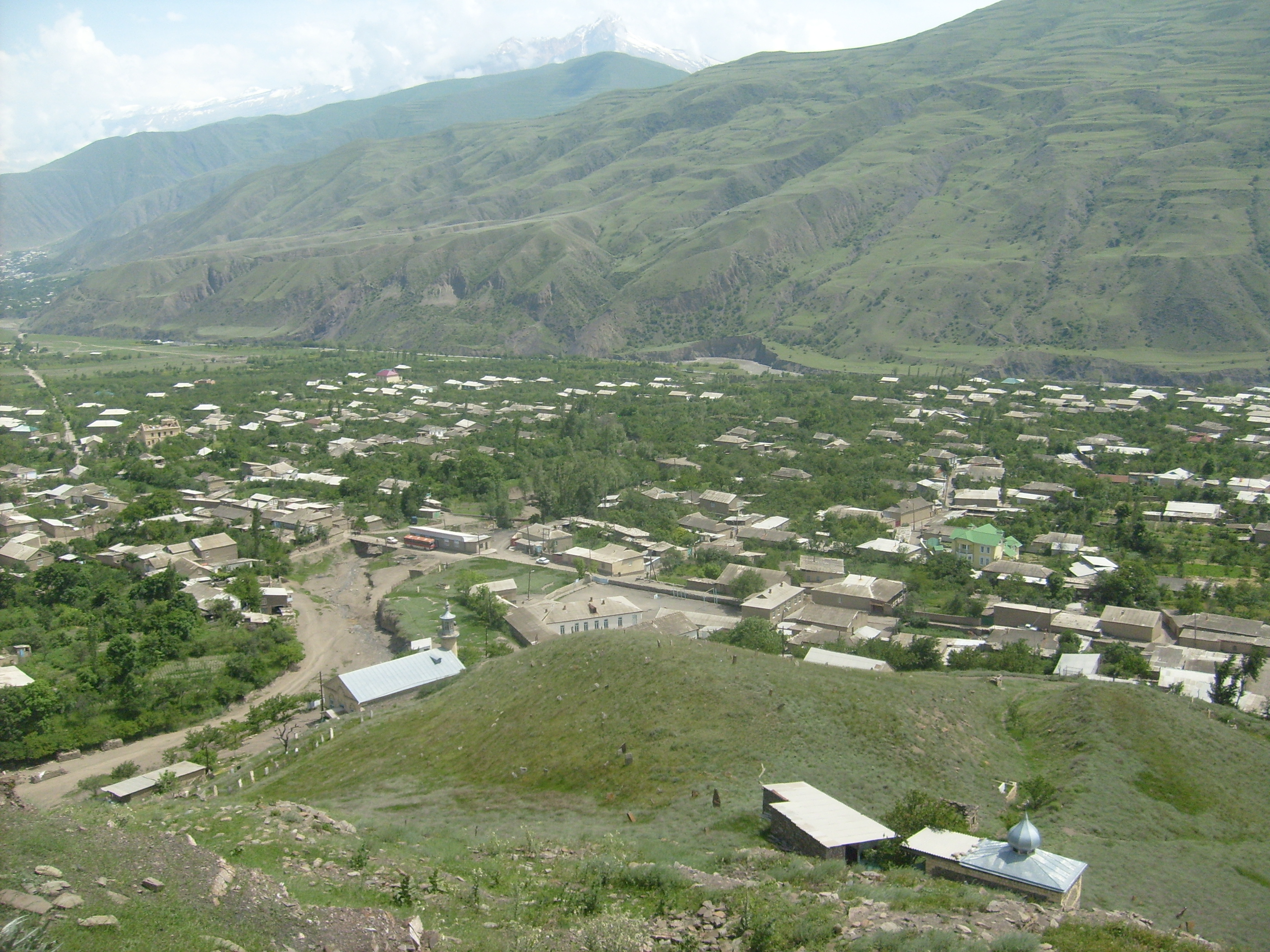 Lutkun